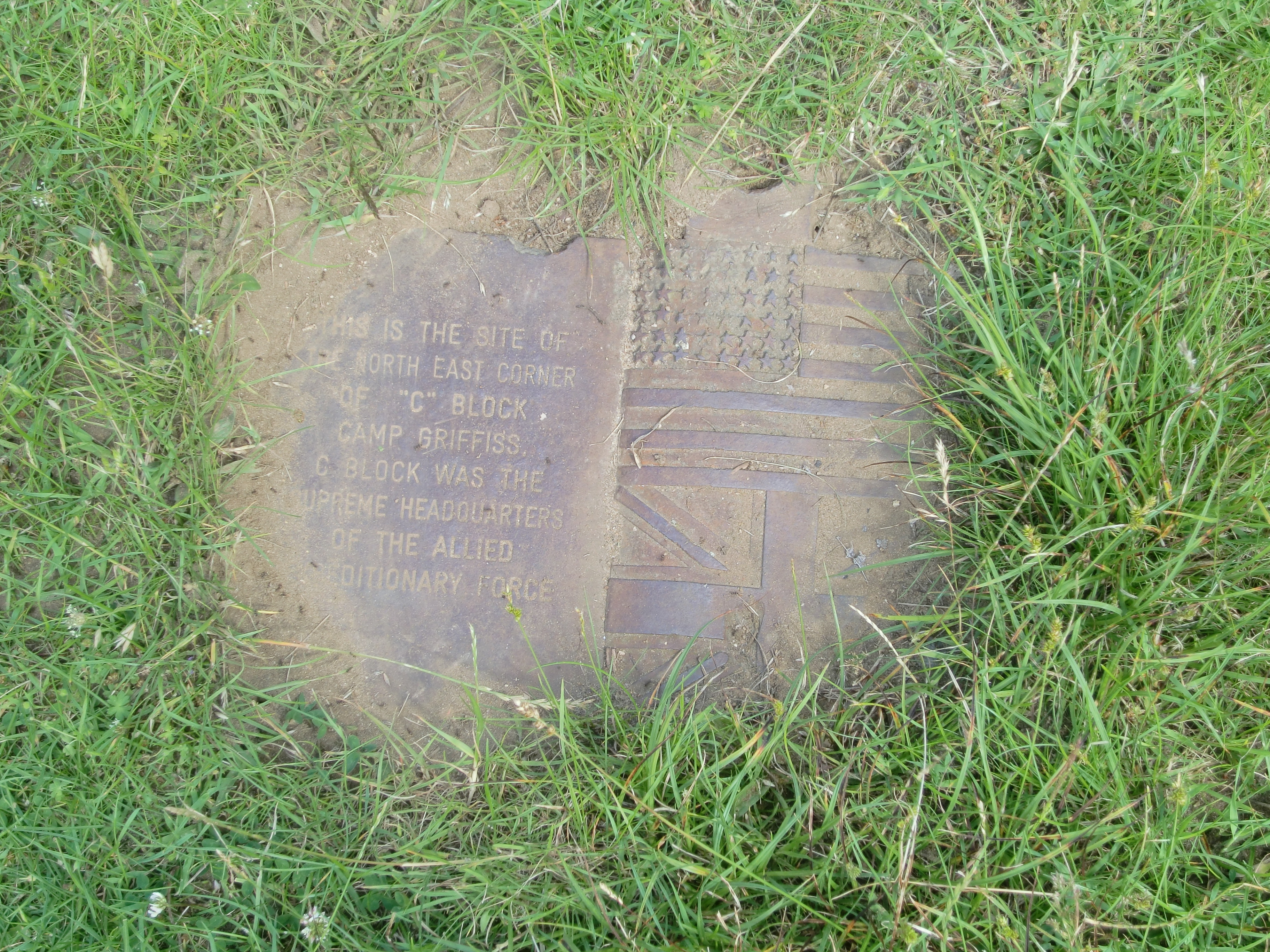 Marker for former location of Block C, Camp Griffiss (near the Eisenhower Memorial, Bushy Park